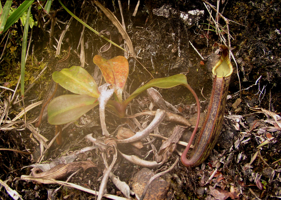 Young Nepenthes fusca plant. Mount Kinabalu, Sabah, Borneo.